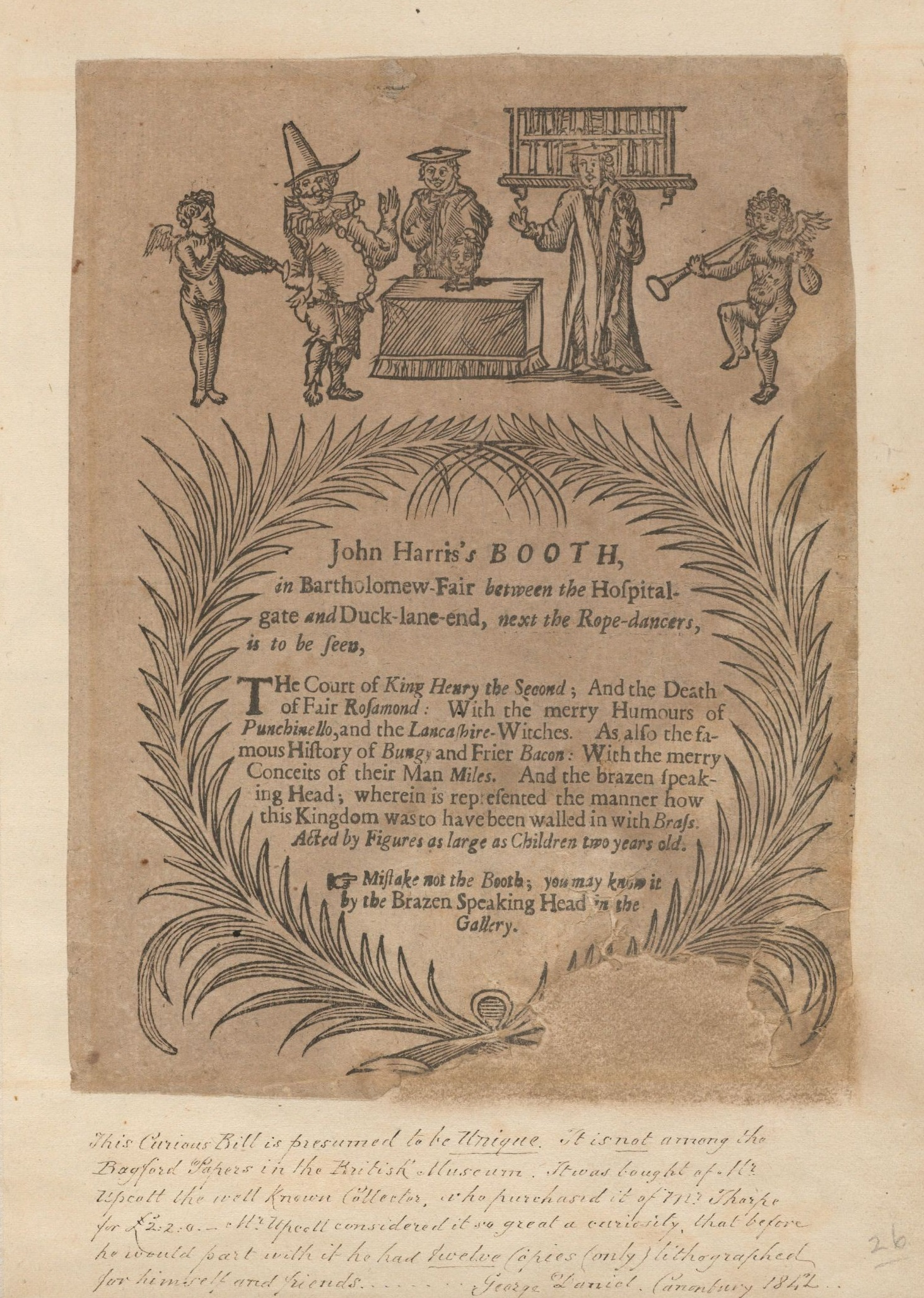 Advertisement: "John Harris’s booth, Bartholemew-fair … is to be seen, The court of King Henry the Second; and the death of fair Rosamond …" [ca. 1700], with additional notes in pencil. TS 555.1, Houghton Library, Harvard University